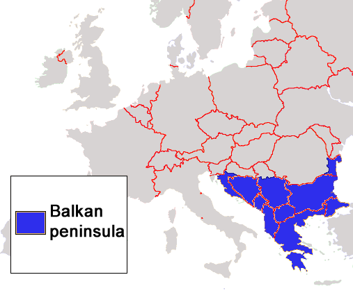 The Balkan peninsula as defined by the Danube-Sava-Kupa line. My own work based on Image:Balkans-political-map-small.png .